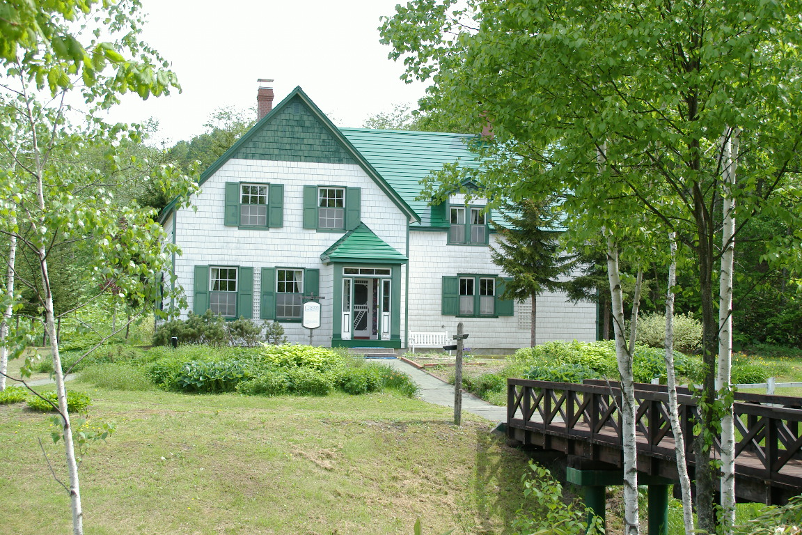 The "Green Gables" of the Canadian world park in Ashibetsu, Hokkaido, Japan